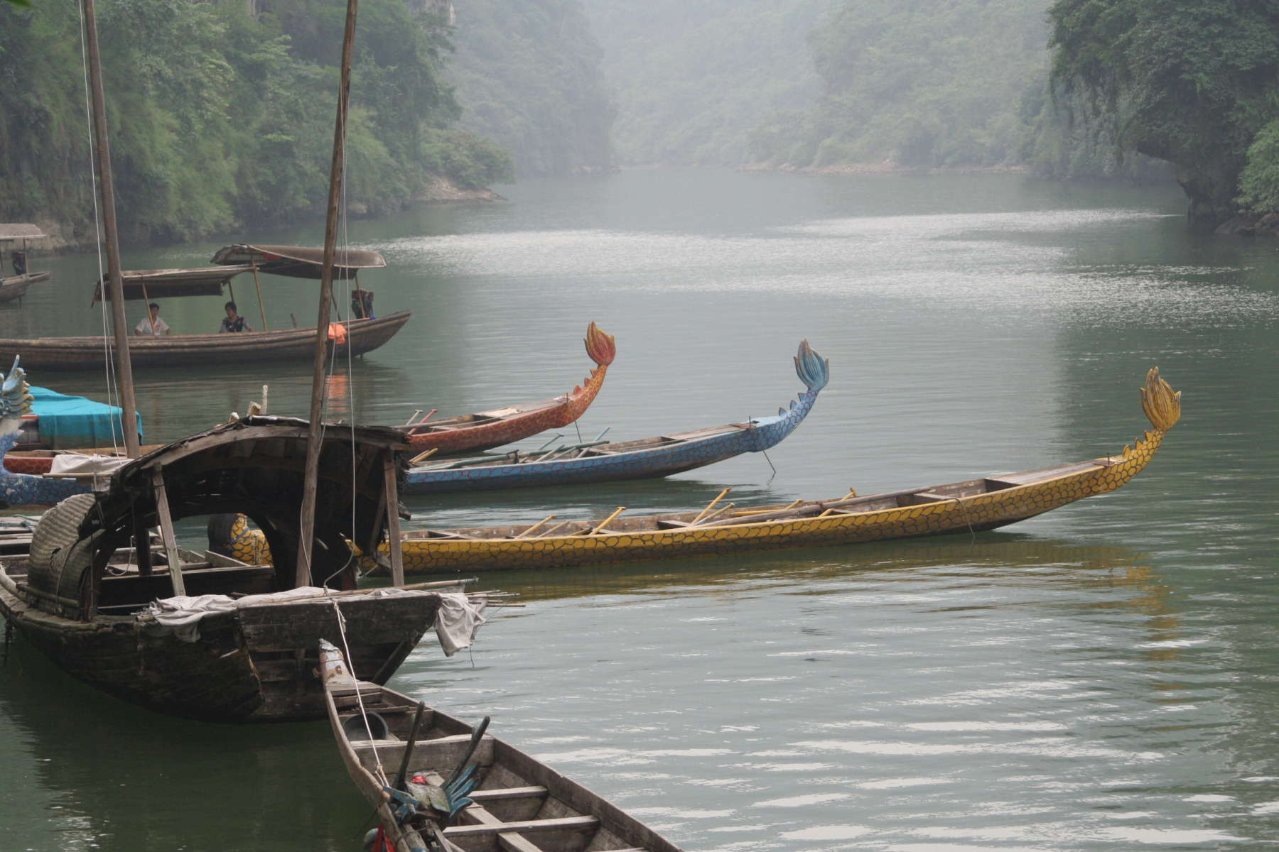 Boats on at Xiling Gorge — the downstream origin of the Three Gorges in Hubei. Picture taken in Hubei on July 2008